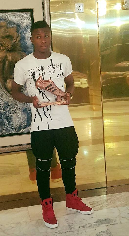 Samuel Chukwueze holding the golden boot trophy that was sent to him by FIFA